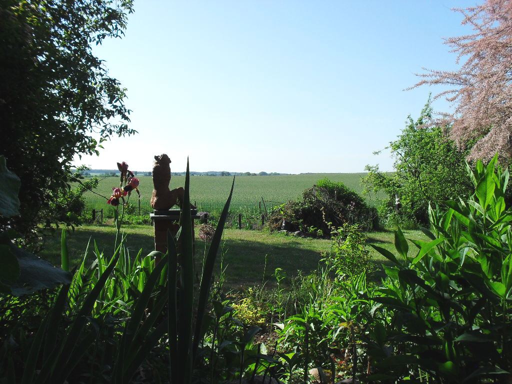 View through the sculpture garden of Dorothee Raetsch in Passentin (Mecklenburg-Vorpommern)